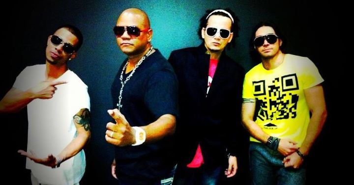 Proyecto Uno